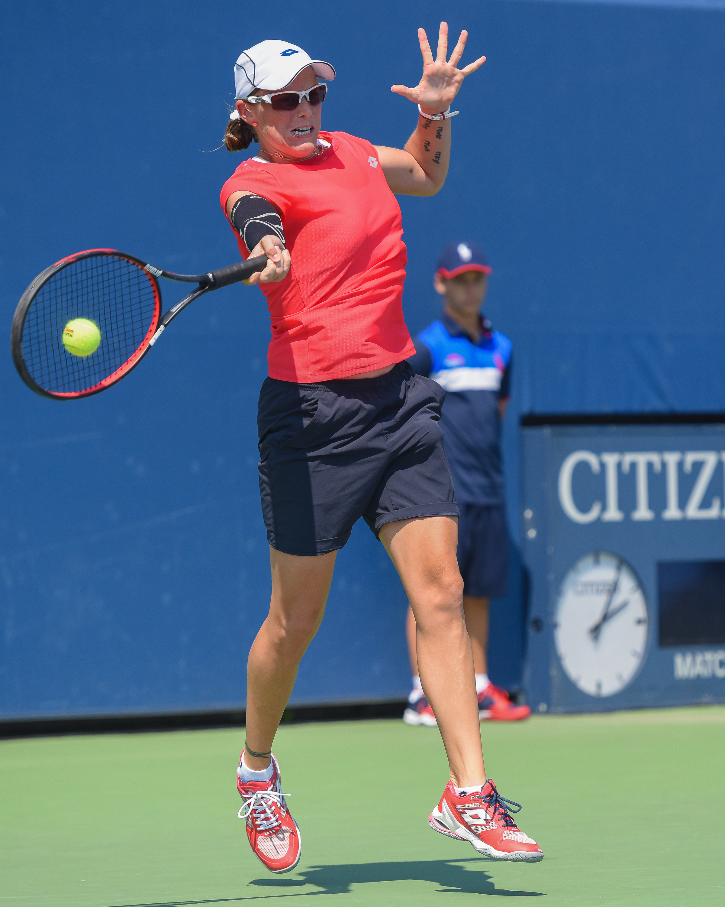 August 25, 2015 Court 5 Flushing, NY